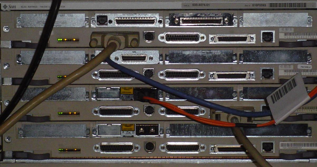 Back of a running Sun SPARCserver-1000E. This machine had recently been moved from a fileserver to a compute server role, hence the large number of unused IO ports.